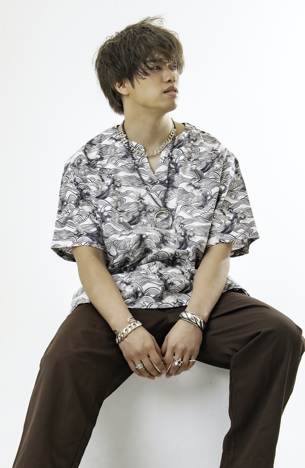 yuya profile